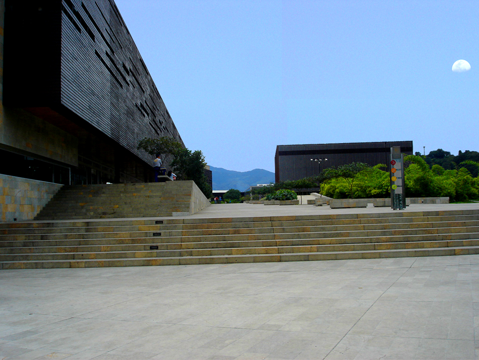 Picture taken by uploader on October 2006